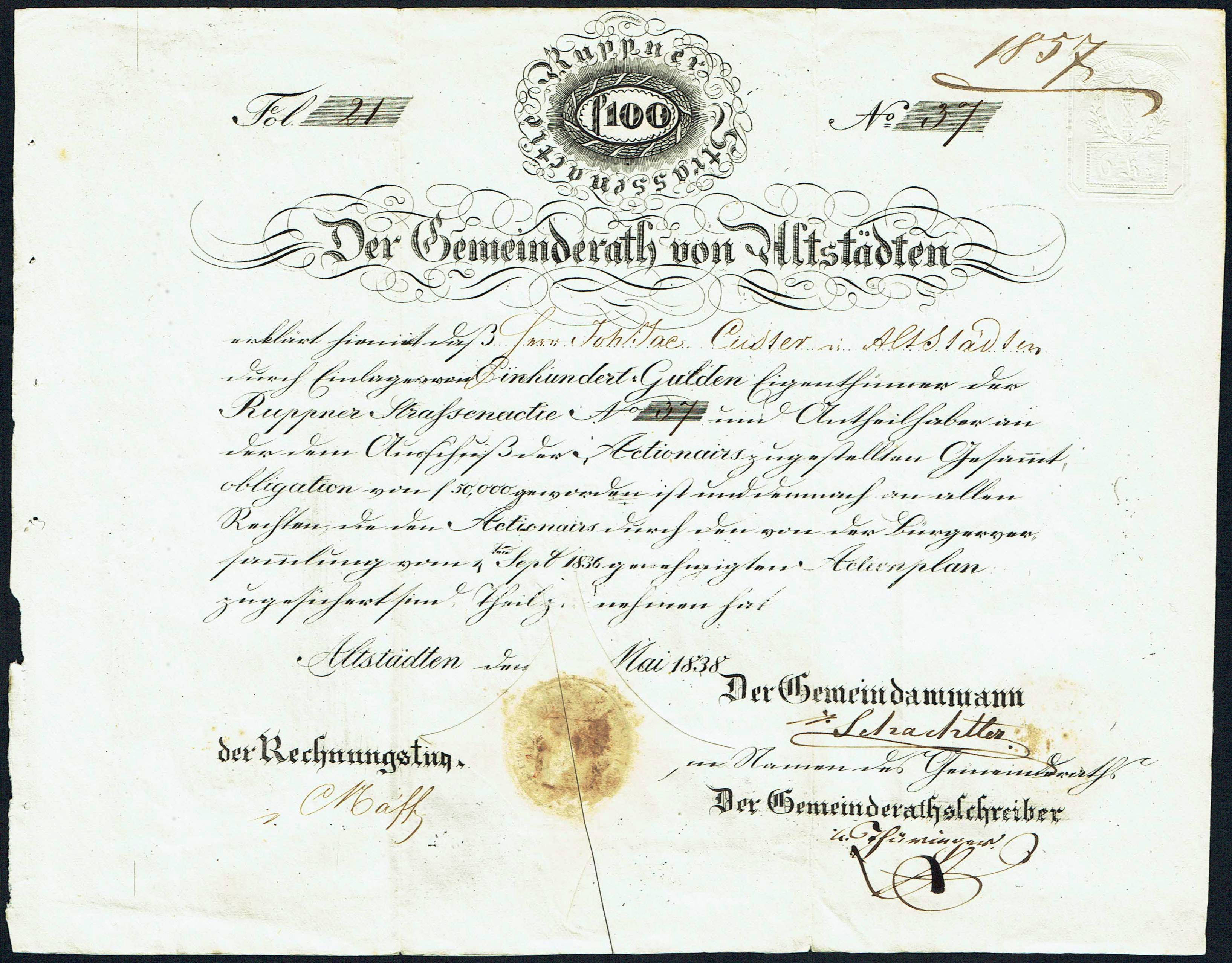 Ruppner Strassenactie, issued 1. May 1838